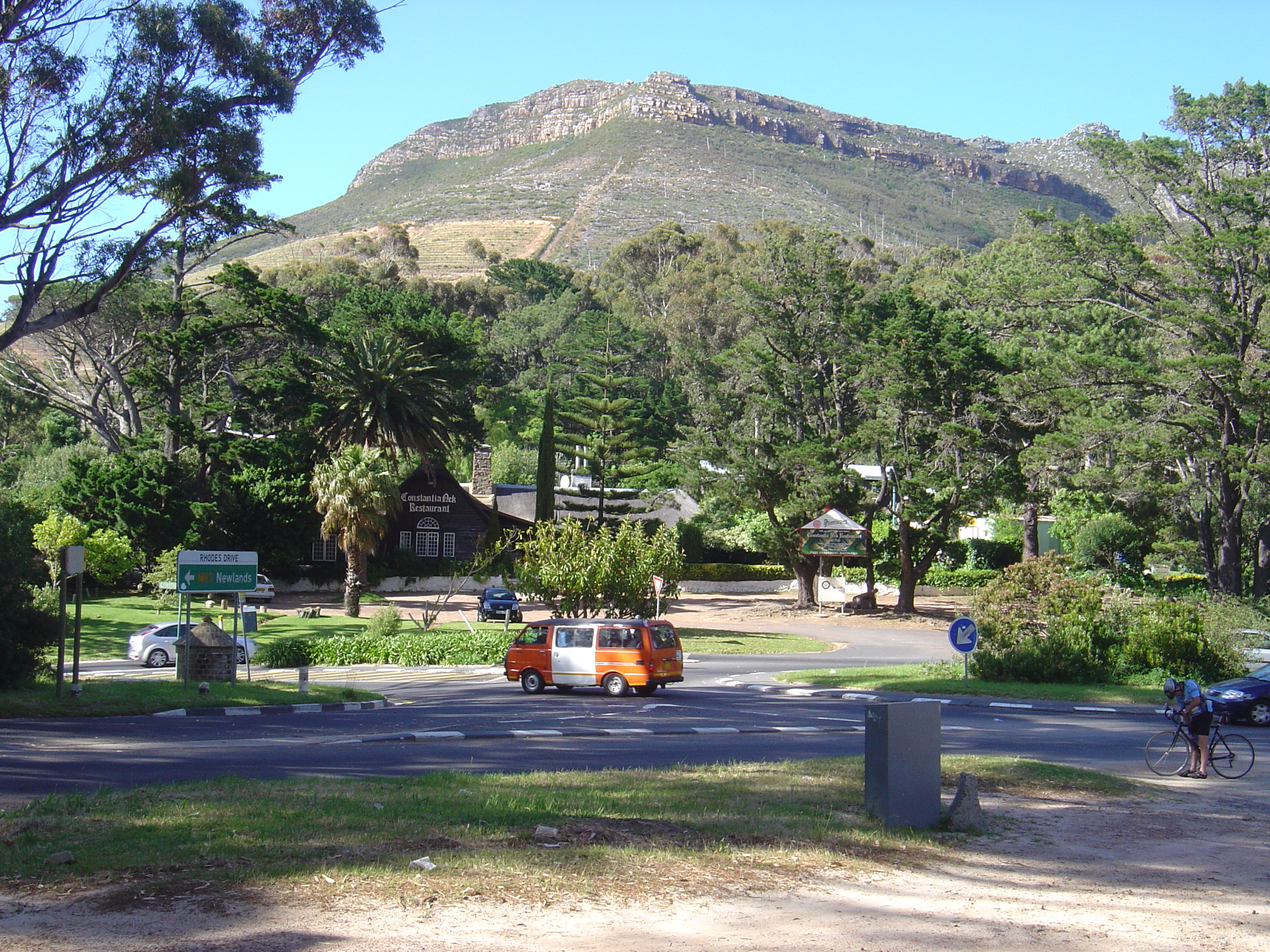 Intersection at Constantia Nek in Cape Town, showing Constantia Nek restaurant and Vlakkenberg to the south. Constantia Nek is one of three passes connecting Hout Bay to the rest of Cape Town.